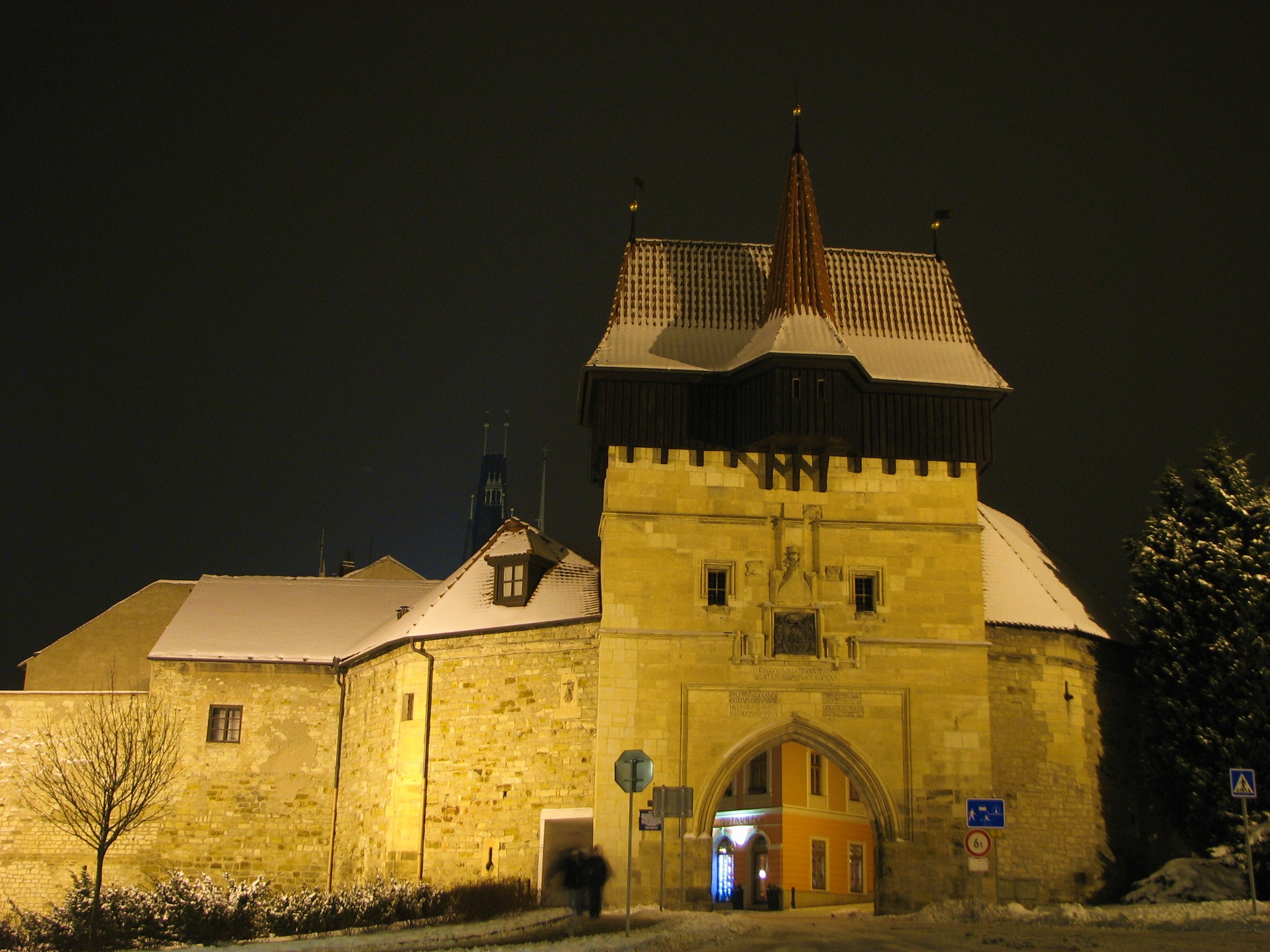 Old town gate, Žatecká brana